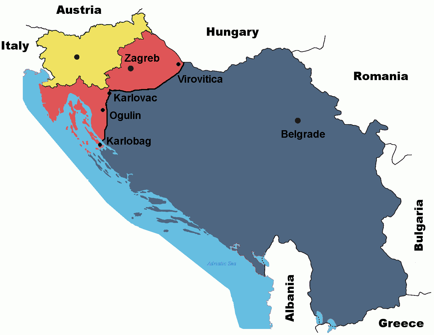 Image of irredentist Greater Serbia (Virovitica-Karlovac-Karlobag line) as defined by Serb politician, Vojislav Šešelj.[1] (page 5 in the .pdf)